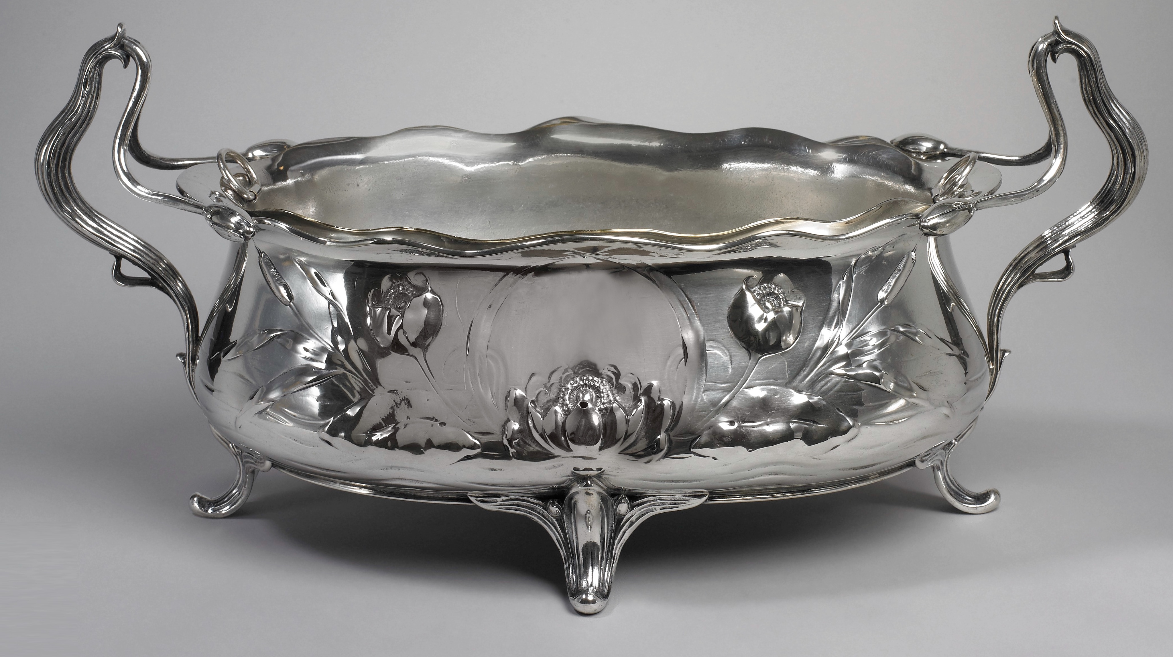 Jardiniere in silver repoussé with two ribbed upturned plant-like looped handles and four feet; scalloped rim and decorated with three blossoms on front.